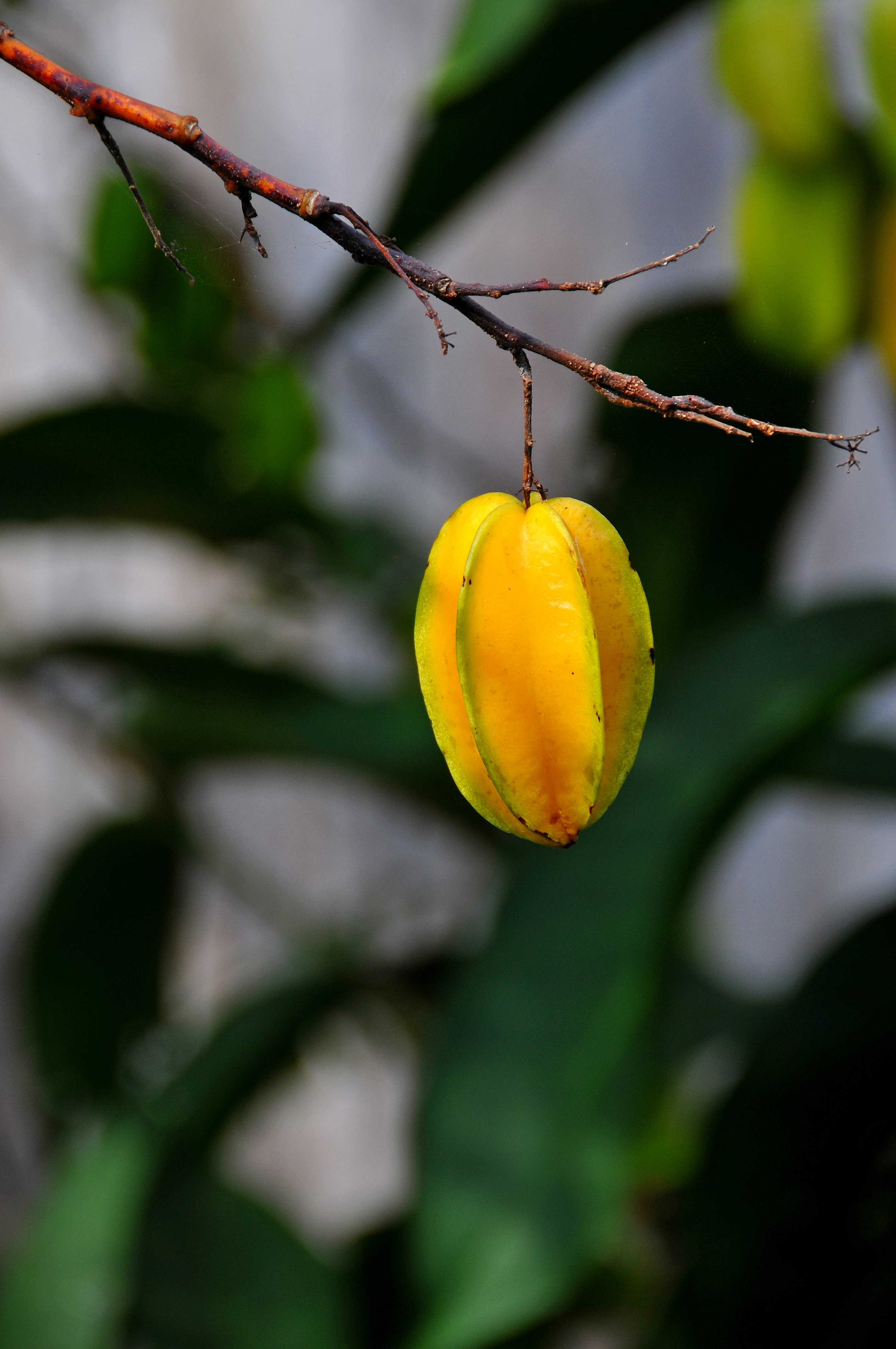 PLEASE, no multi invitations in your comments. Thanks. This picture has two others inside, different fruits. Star fruit, is mild, sweet, sub-acid flavor complements many commercial juice drinks, and the fruit is also often eaten out hand. When cut, slices of the fruit have a star shape. Mekong Delta, Vietnam